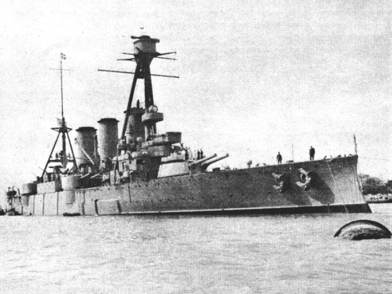 The Greek armoured cruiser Georgios Averof, photographed probably following the Second World War.